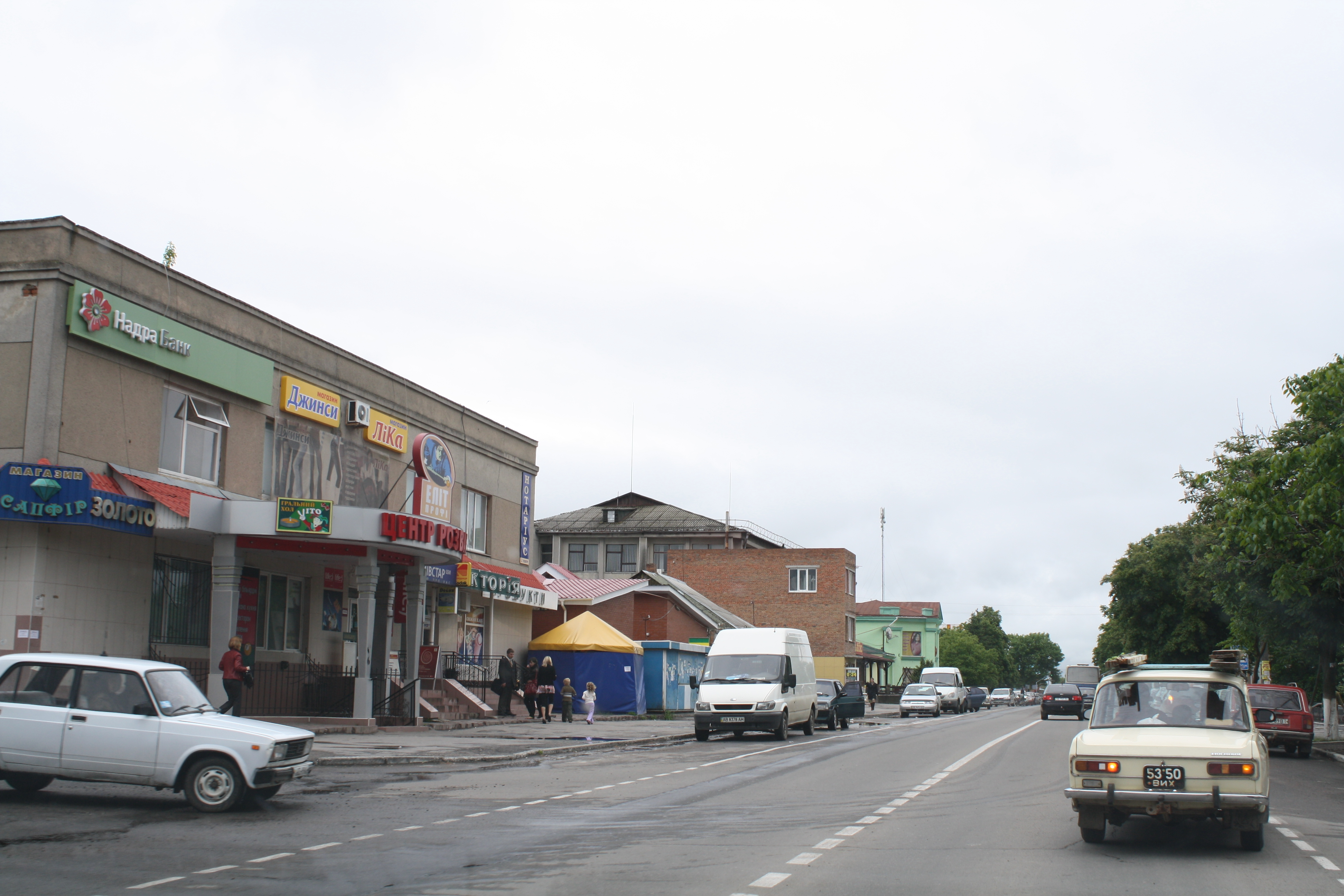 Center of Nemyriv, Vinnytsia Oblast, Ukraine